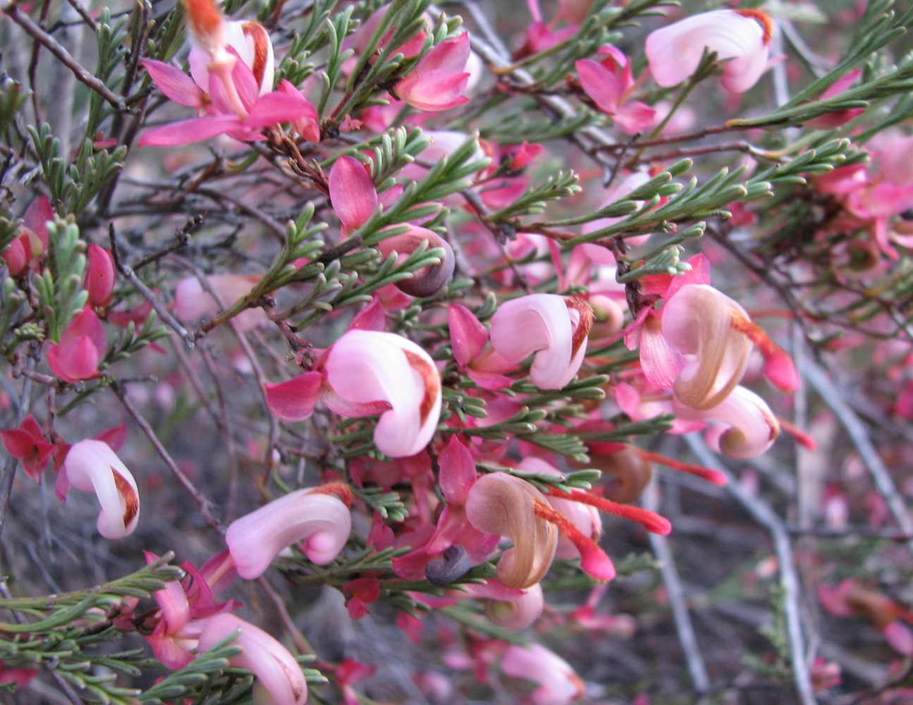 Grevillea involucrata (cultivated, labelled), Maranoa Gardens, Balwyn, Victoria, Australia